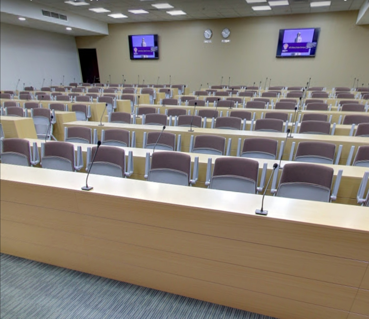 Classroom in BITS main building